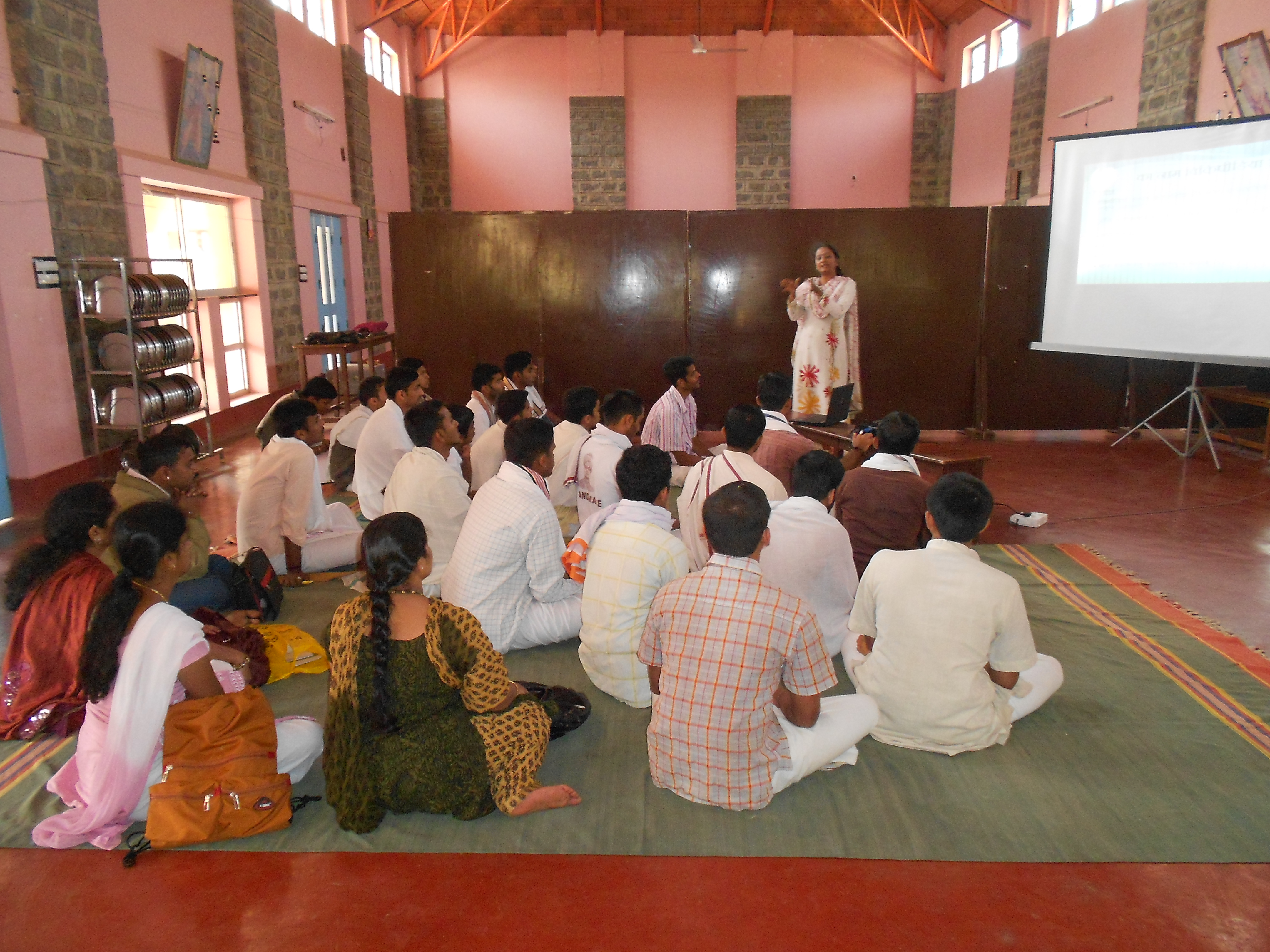 The Sanskrit Outreach program was held at Veda Vijnana Gurukula,Channenahalli, Bangalore on 5th Feb 2012